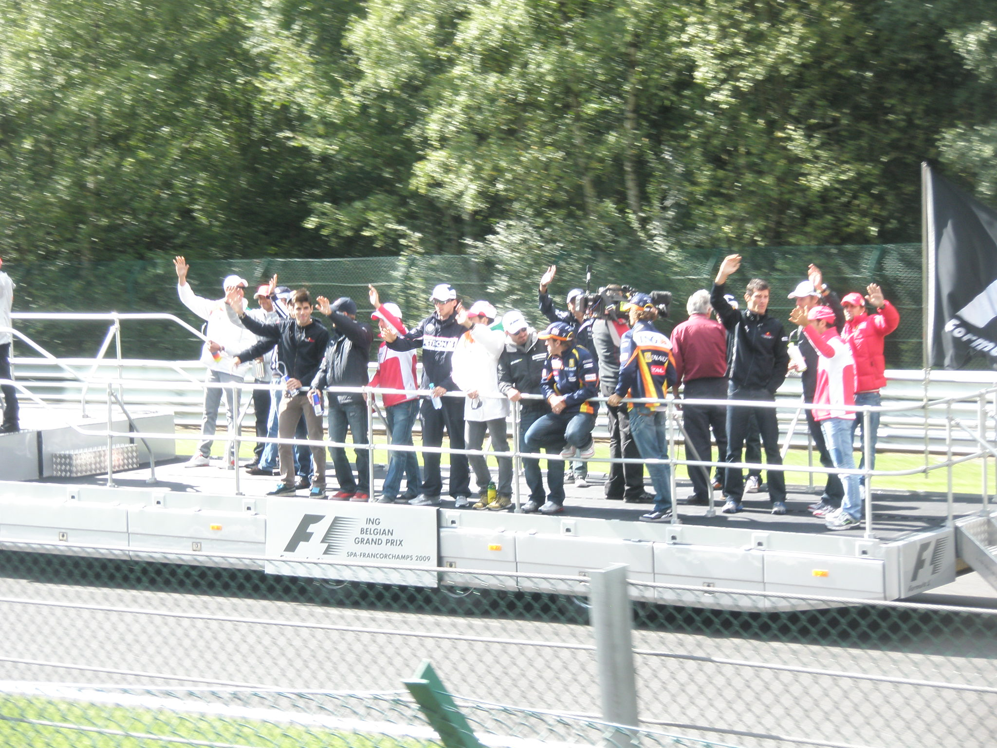 Formula 1 drivers parade in Spa 2009